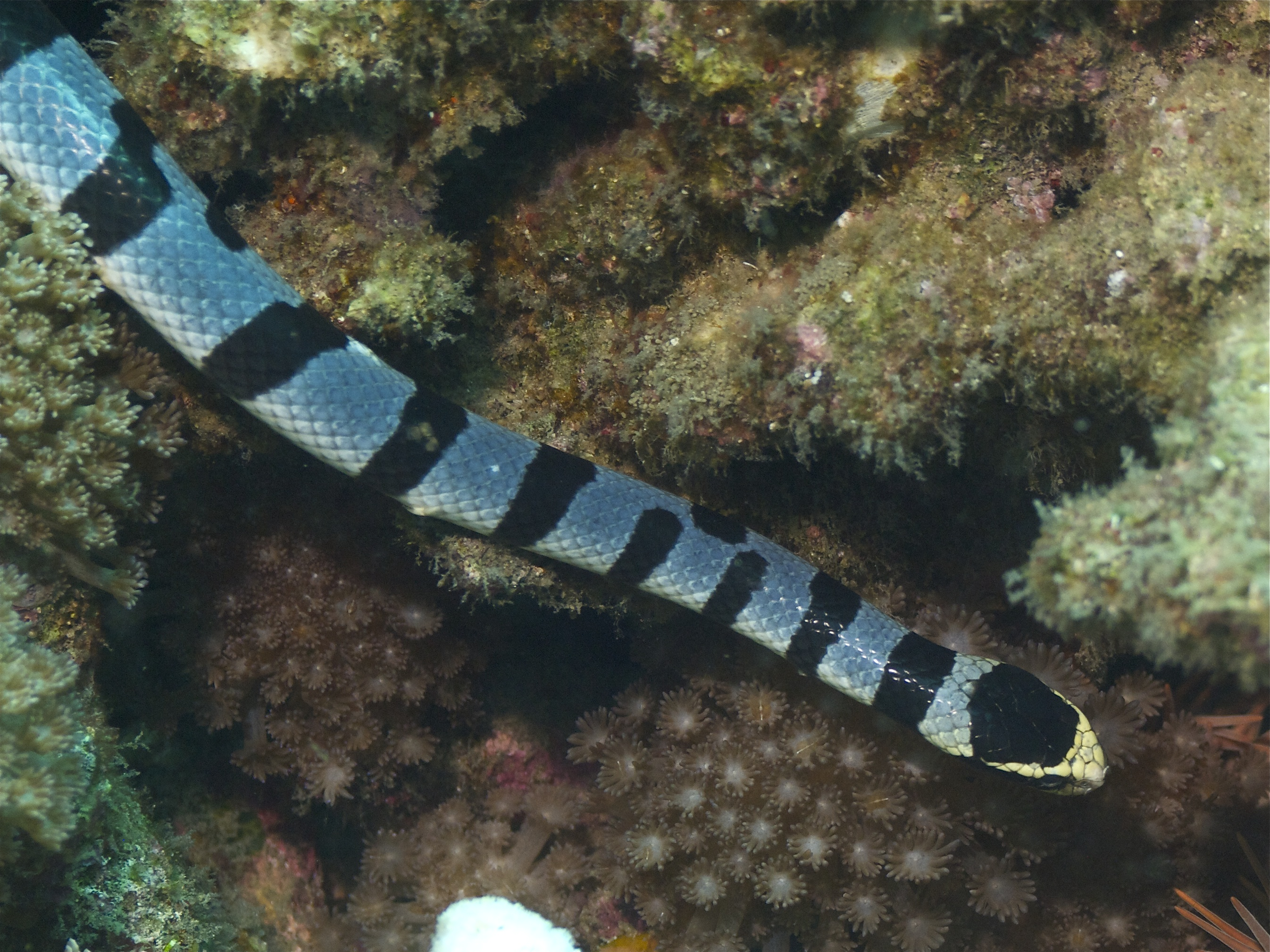 A yellow-lipped sea krait (Laticauda colubrina) in Zamboanguita, Central Visayas, Philippines